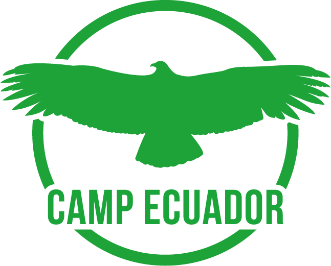 Logo for Camp Ecuador, a subsidiary of Camps International.